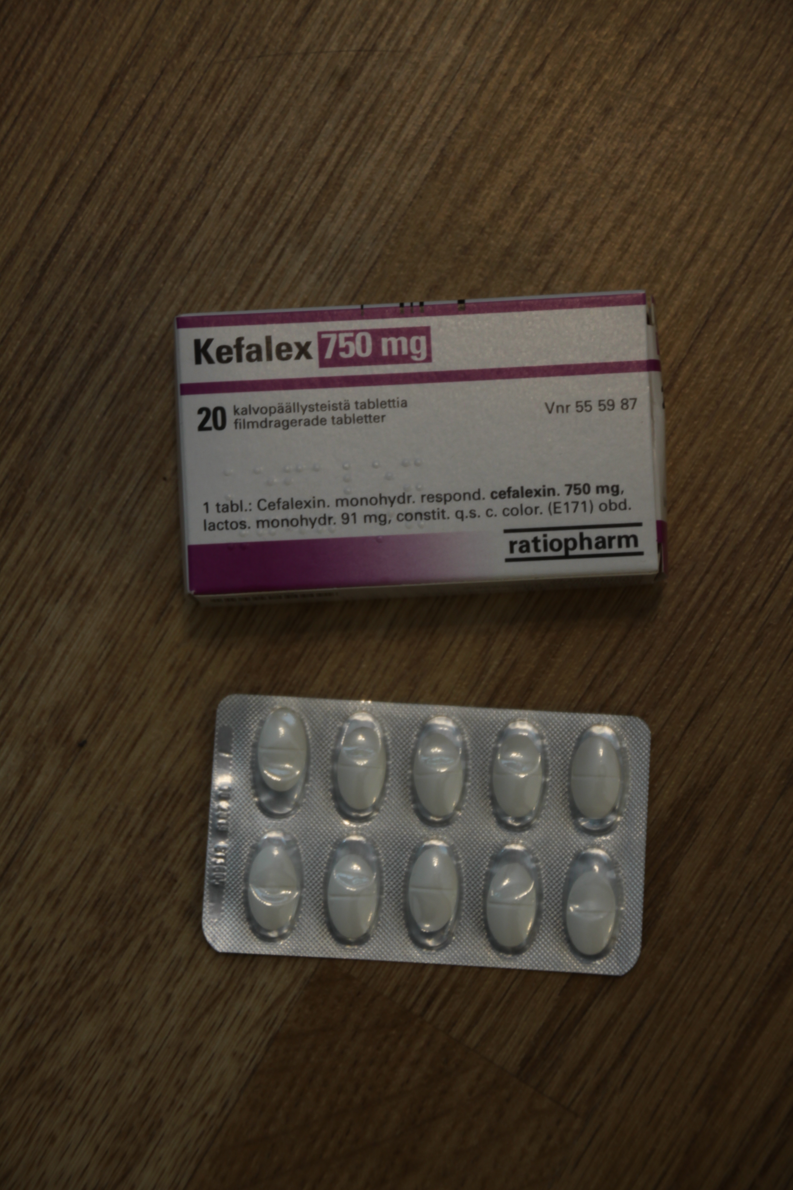 A finnish Kefalex (cefalexin) 750 mg -medicine package and a blister pack.